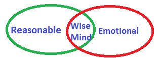 mindfullness dialectical behavior therapy DBT borderline personality disorder reasonable emotional wise mind,emotionally unstable personality disorder aka Dyslimbia